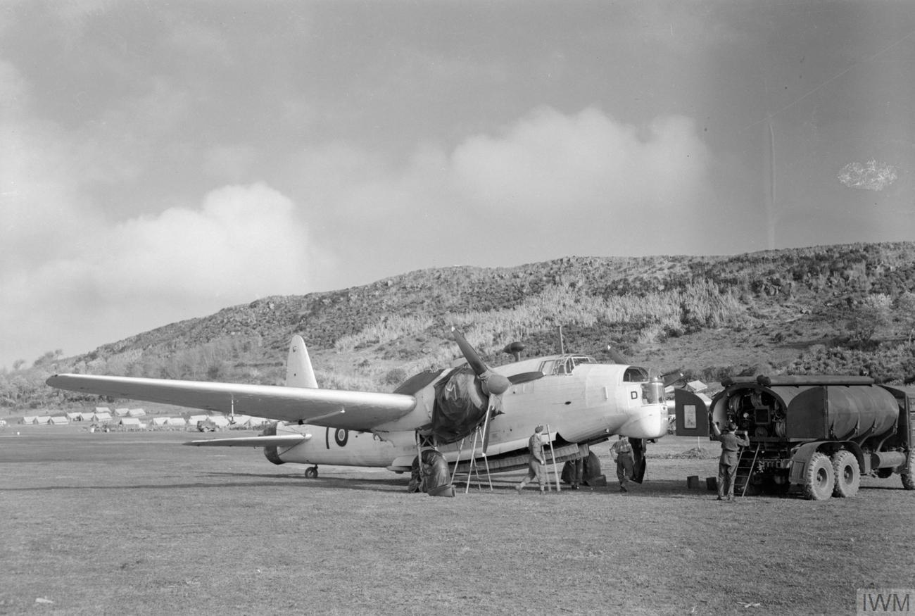 Royal Air Force Coastal Command- No. 247 Group Operations in the Azores, 1943-1945. Vickers Wellington GR Mark XIV, HF197 '1-D', of No. 172 Squadron RAF Detachment, undergoing servicing at Lagens. The Squadron maintained a Detachment flying anti-submarine operations from the Azores between December 1943 and April 1944.